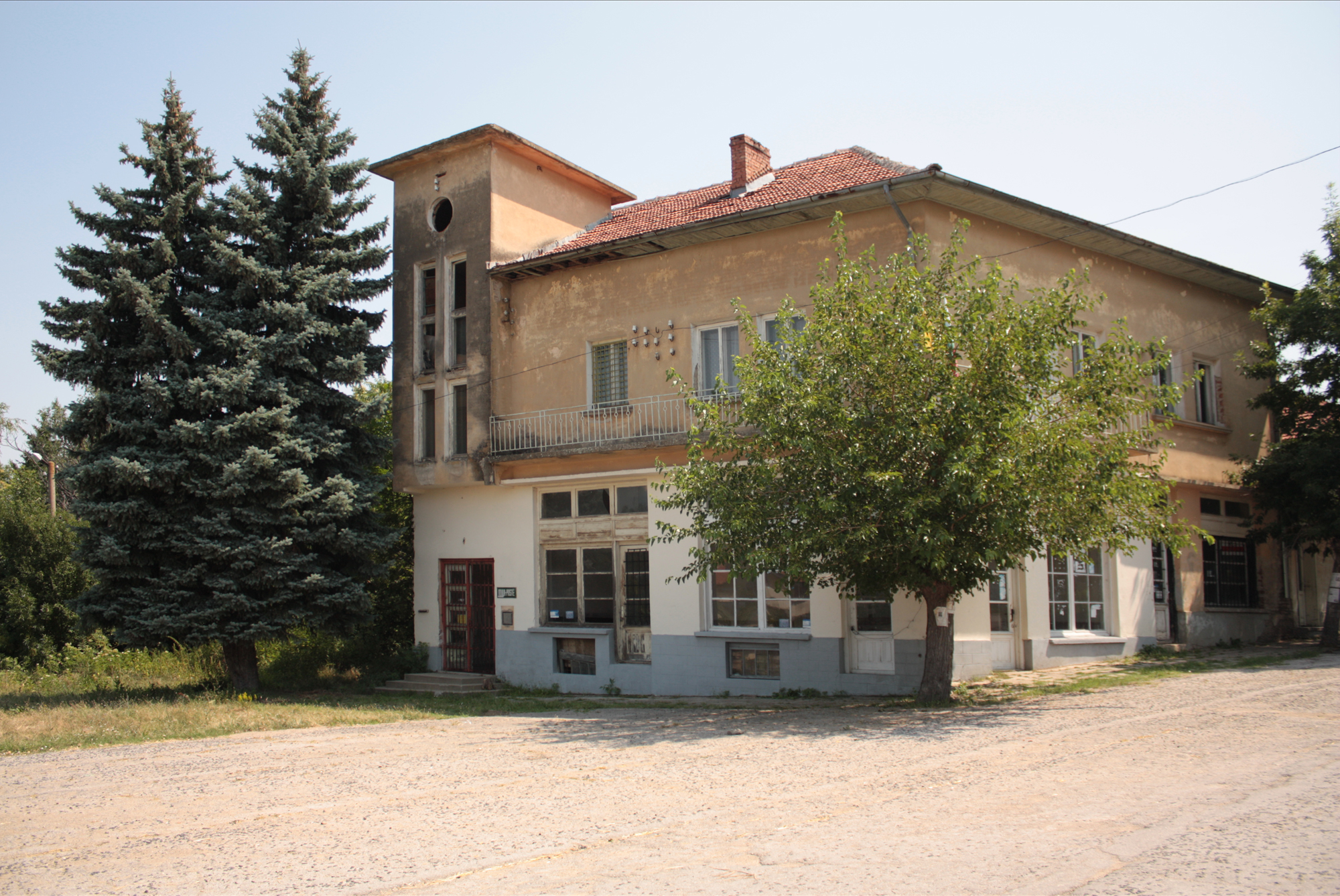 Devetaki Post office, Bulgaria